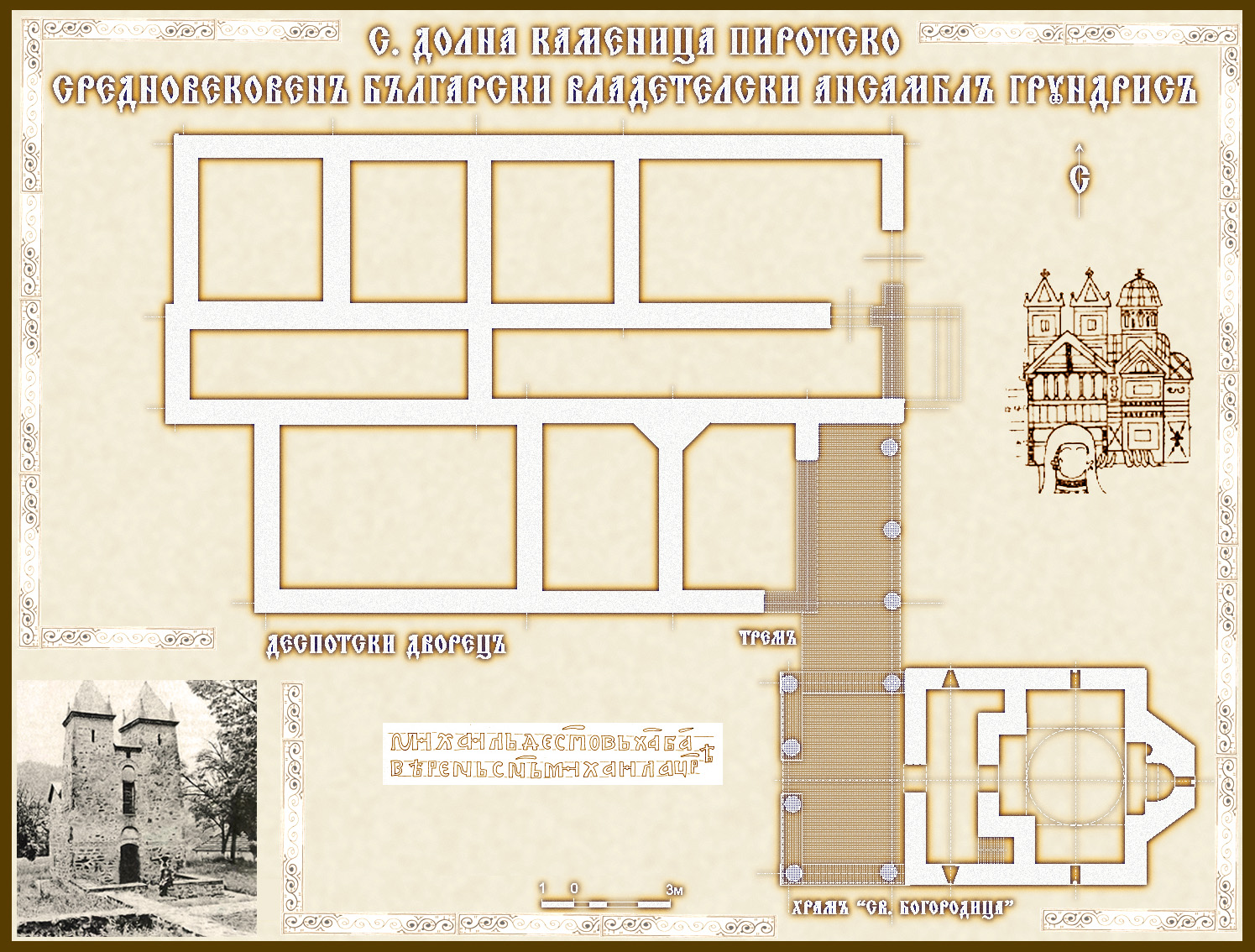 Bulgarian medieval church and castel in Dolna Kamenitsa, research of Milomir Bogdanov